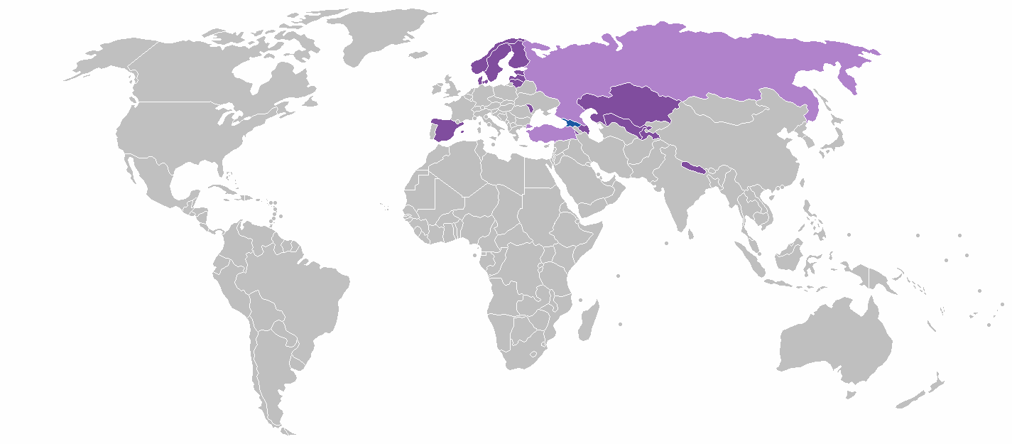 TeliaSonera global activities. Majority-owned operations. Associated companies. Former companies owned by Telia.